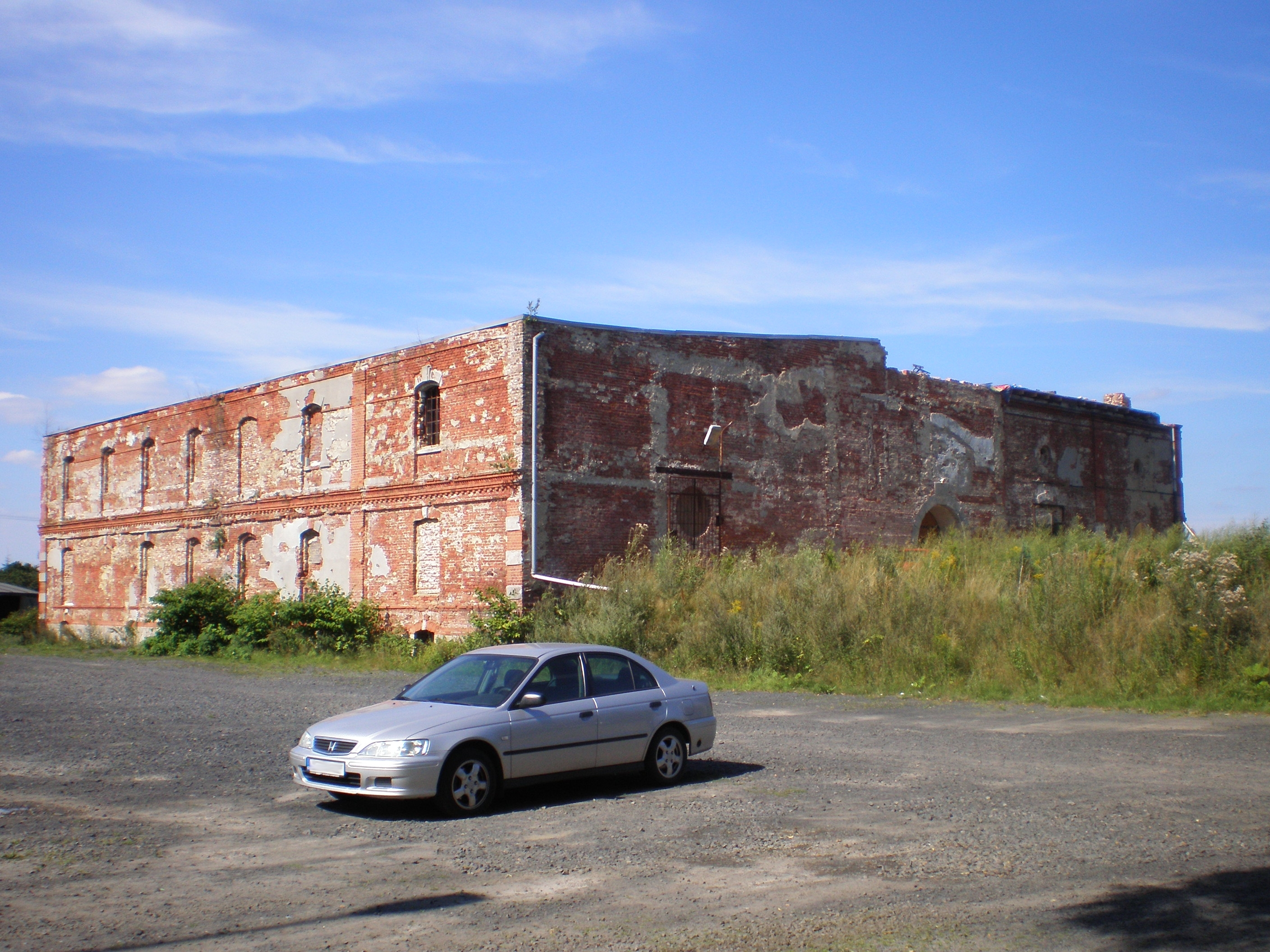 Krásná (Cheb District, Czech Republic) former Brewery